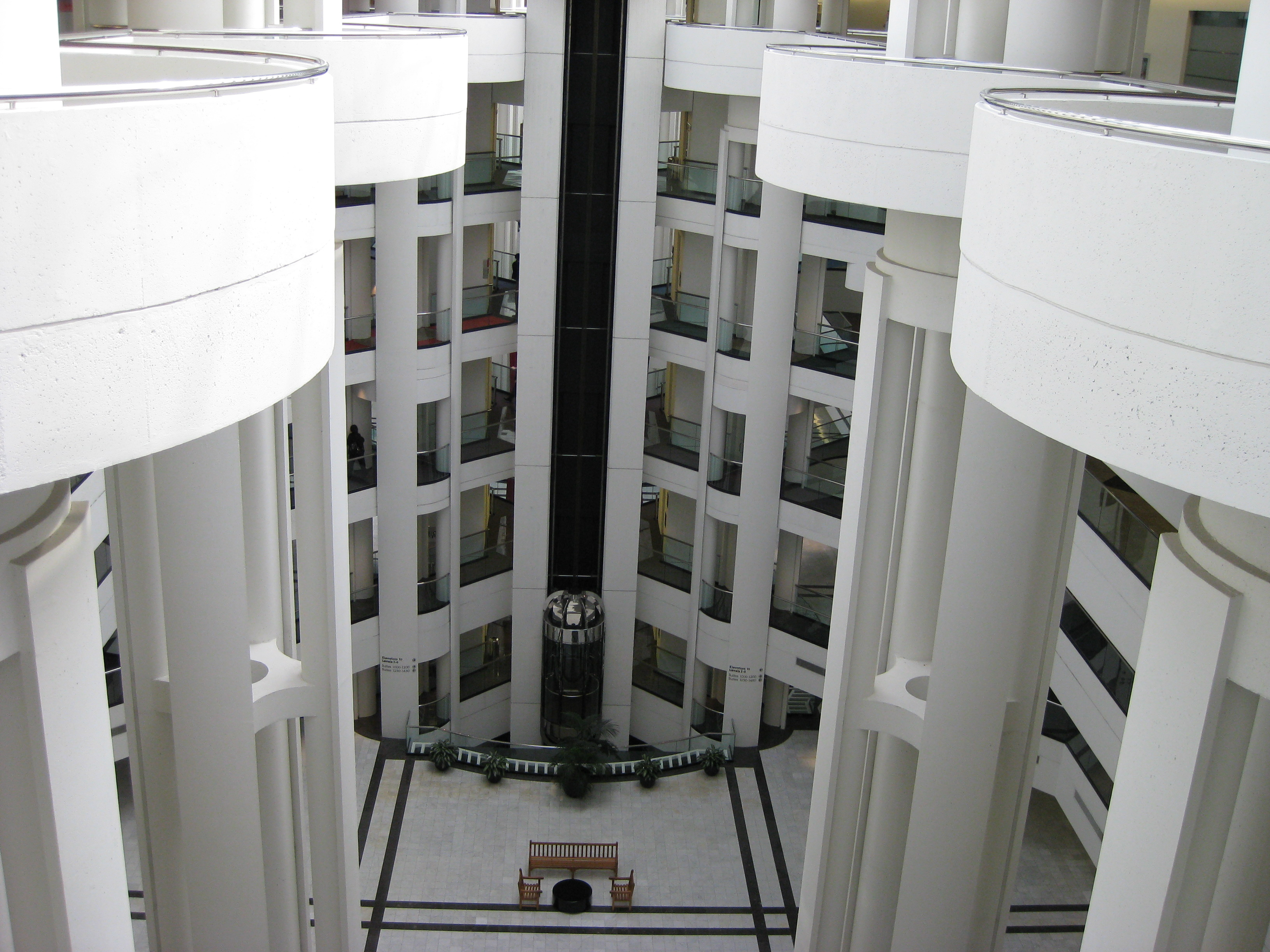 Photograph of the interior of the American Cancer Society Center in Atlanta, Georgia taken from the sixth floor by Matthew R. Lee on March 18, 2008. Matthew R. Lee| (talk|) 21:39, 16 February 2009 (UTC) Category:Images of Atlanta Summary Photograph of the interior of the American Cancer Society Center in Atlanta, Georgia. Credits Taken from the sixth floor by Matthew R. Lee on March 18, 2008. Matthew R. Lee (talk) 21:39, 16 February 2009 (UTC)